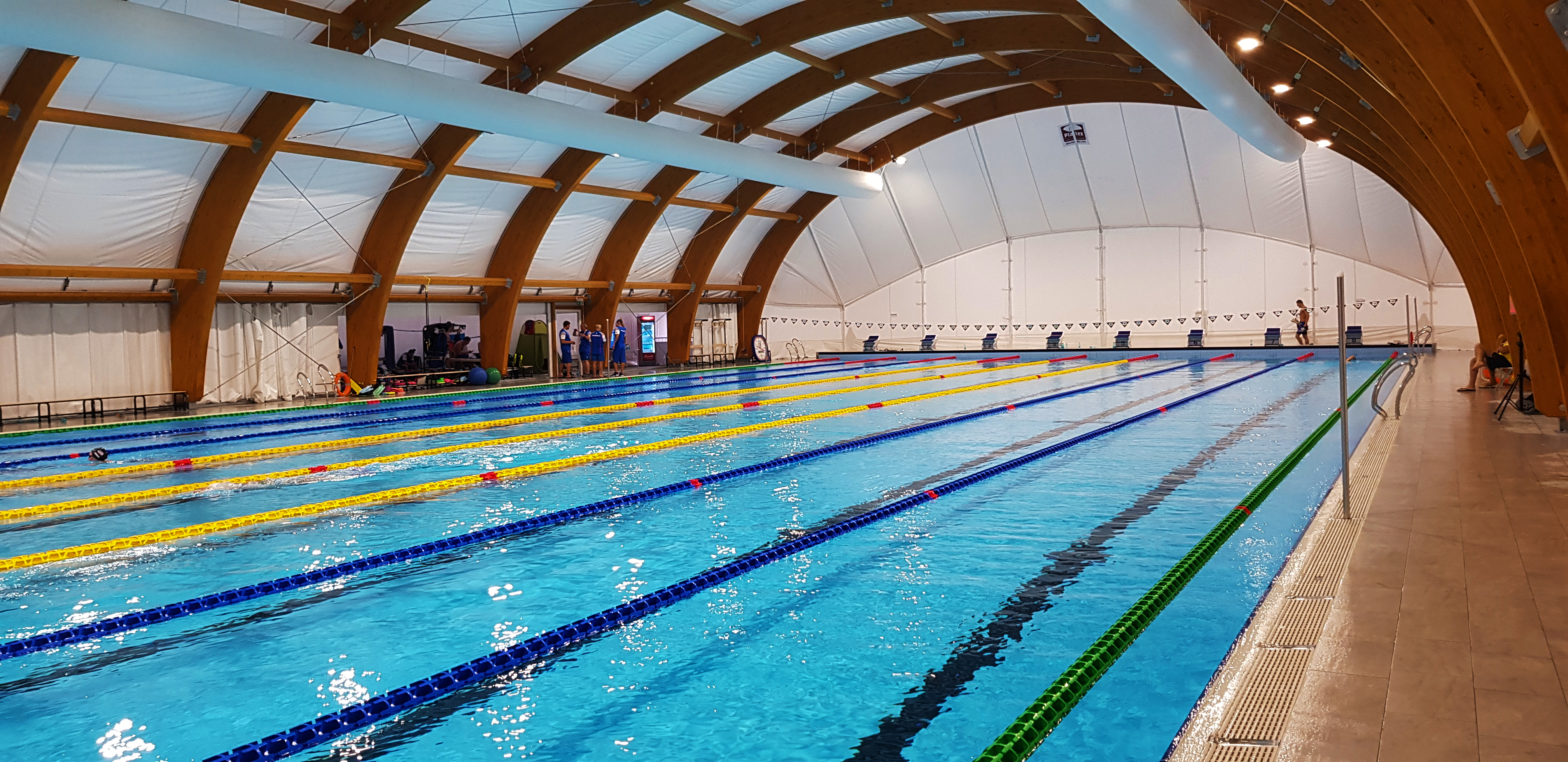 A secondary pool with tensile structure in the Scandone swimming complex in Naples, Italy.